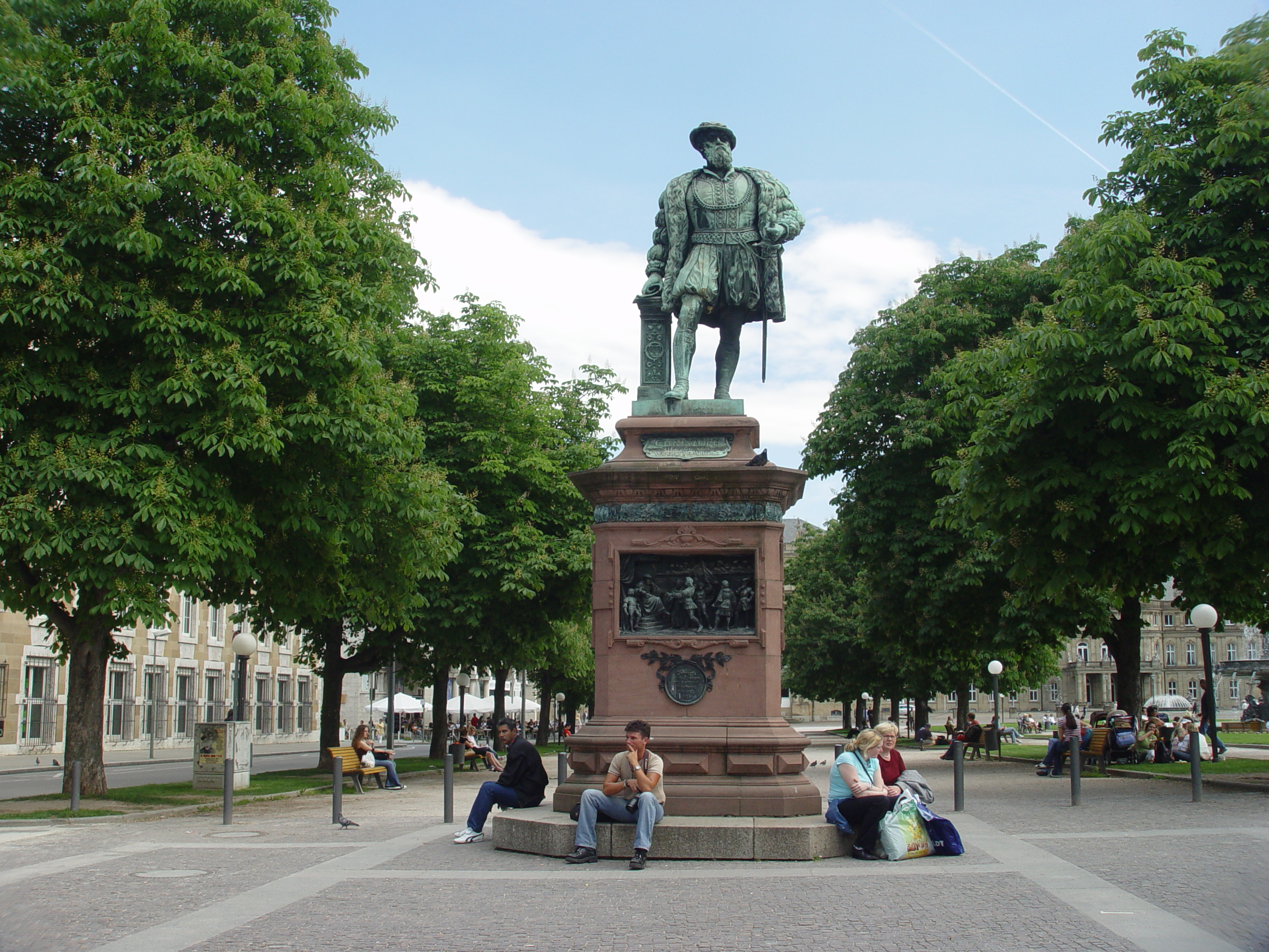 Christoph, Duke of Württemberg at Schlossplatz Stuttgart, sculpted by Paul Müller (sculptor)